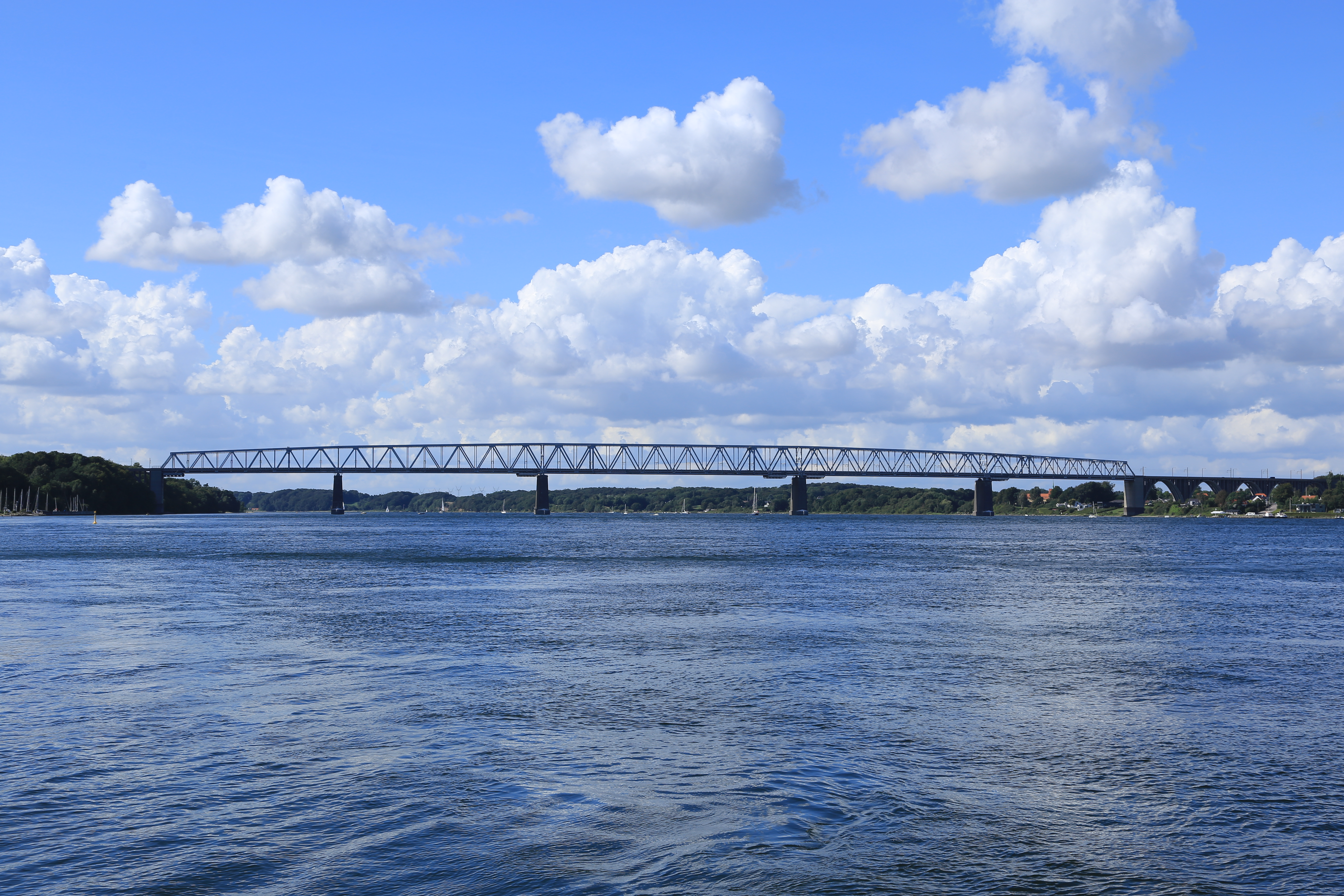 The Little Belt Bridge (1935) seen from the harbour in Middelfart.